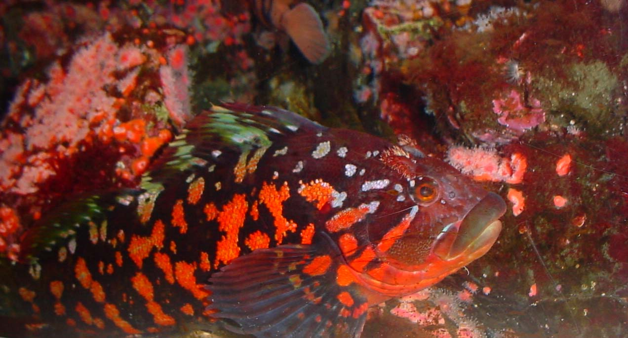 Made it myself. It's a Rock Greenling (Hexagrammos lagocephalus). Category:Scorpaeniformes images